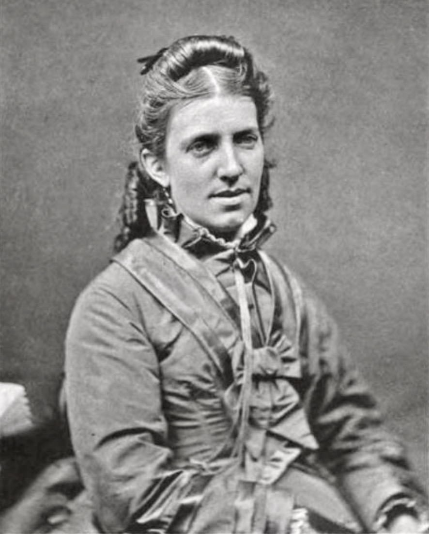 Portrait of Mary Ann Hill née Bobbett (1839-1874), wife of Sidney Hill (1829-1908)